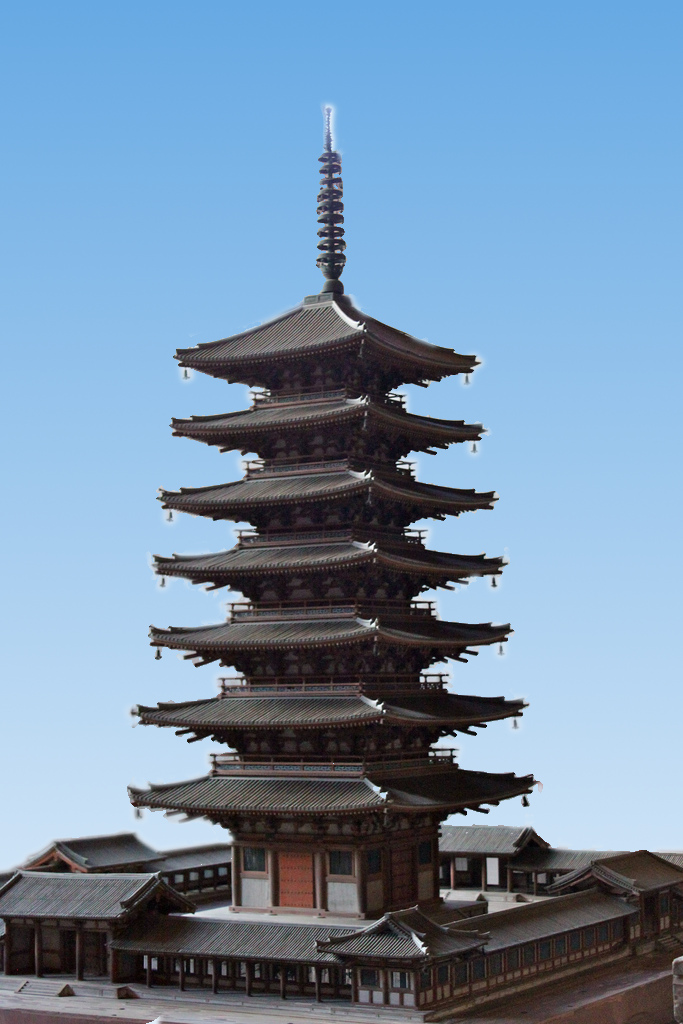 Model of the lost pagodas of Todaiji. Model created arround 1912 under the supervision of Shun'ichi Amanuma.